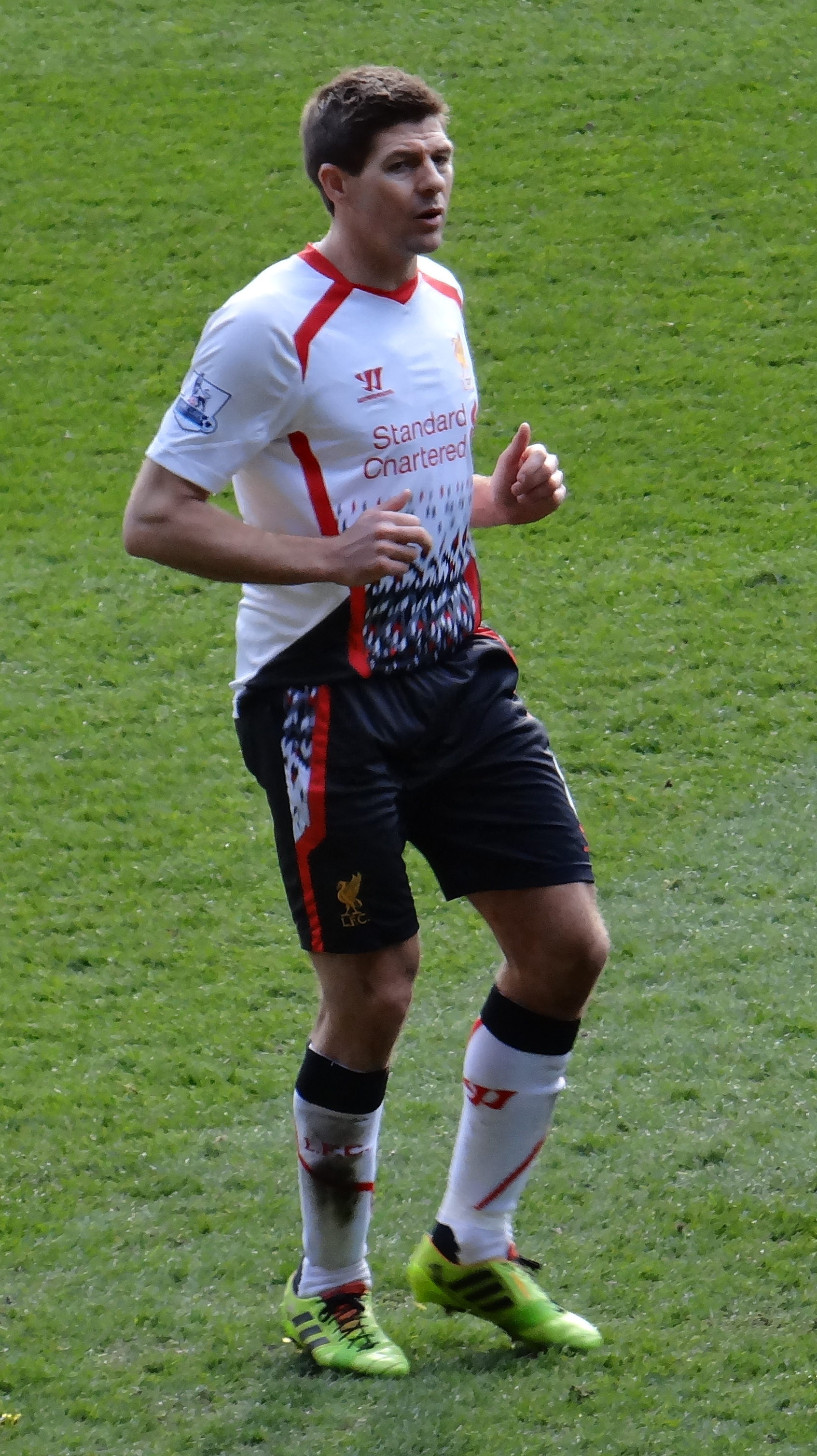 Steven Gerrard playing against Cardiff City in March 2014.